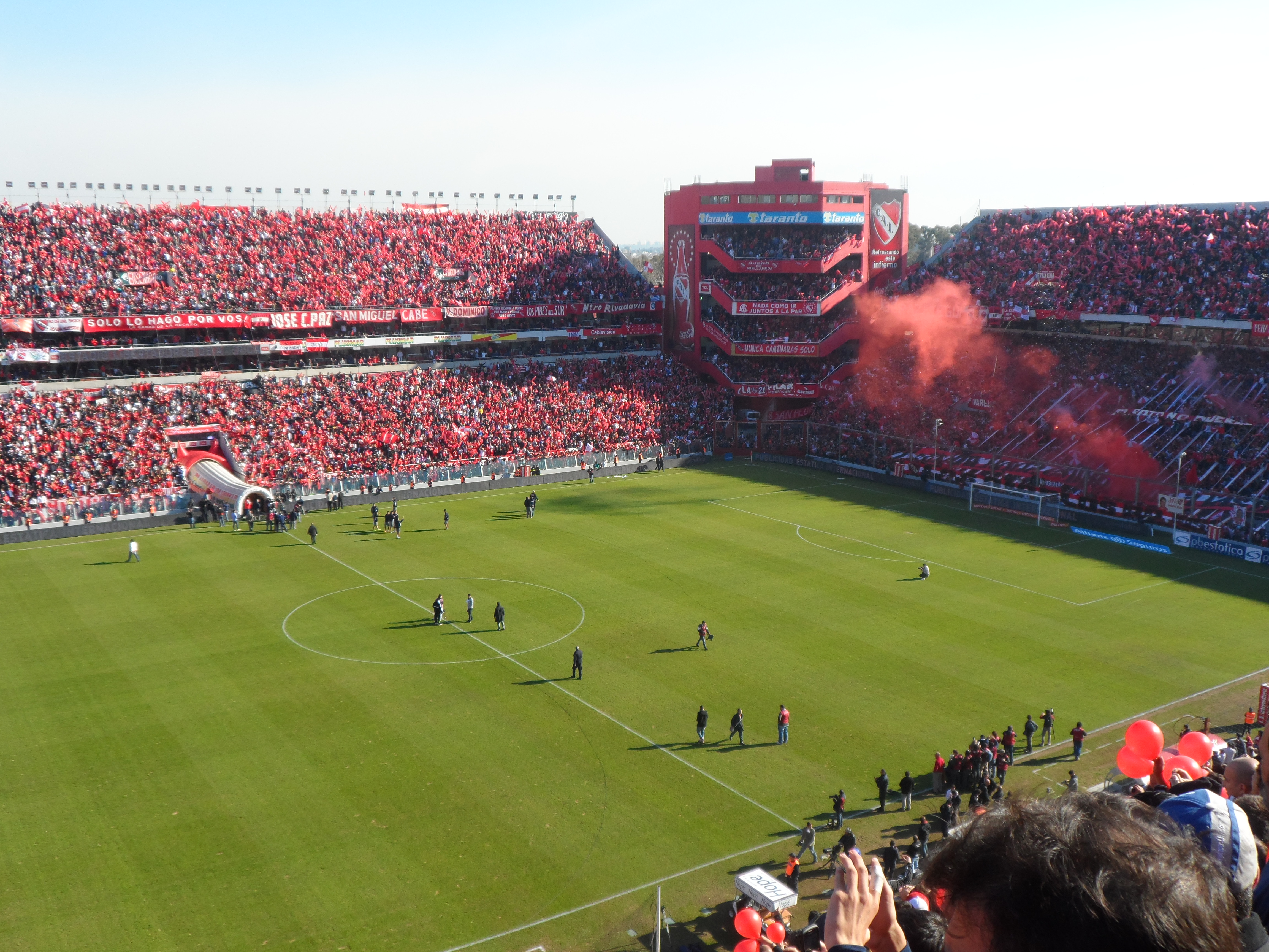 Vista del Libertadores de America